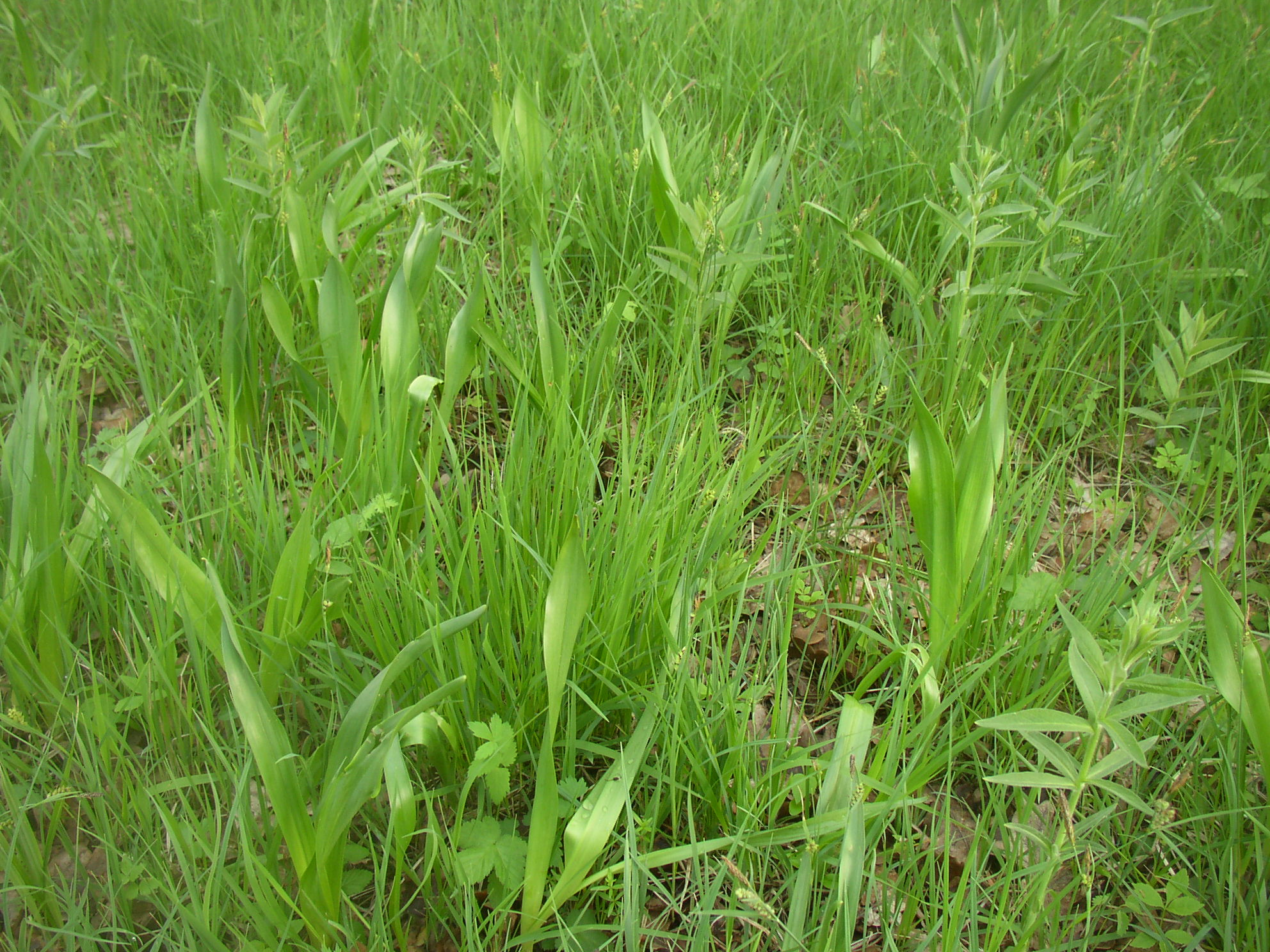 Slatinná louka u Liblic nature reserve, an orchid meadow in park of Liblice Chateau, Mělník District, Czech Republic.